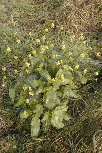 Sinapis arvensis from Commanster, Belgian High Ardennes .